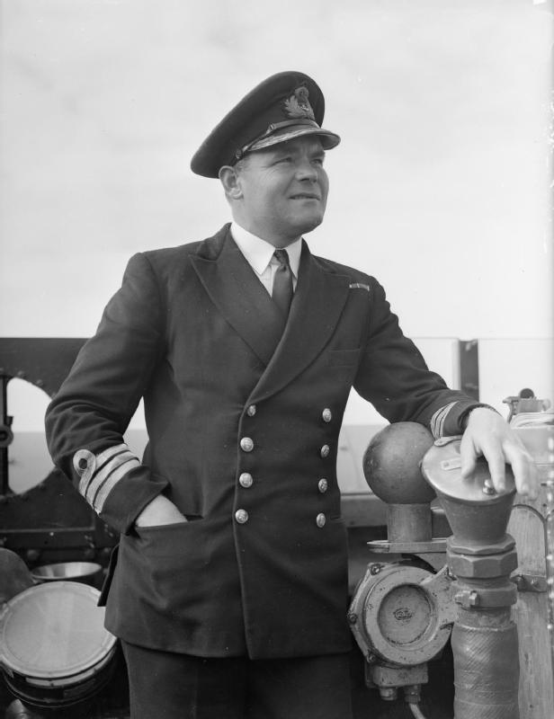 The Battle of the Atlantic 1939-1945 British Personalities: Commander Donald MacIntyre DSO DSC RN who was responsible for sinking two of Germany's foremost U-boat aces, Otto Kretschmer and Joachim Schepkle on 16 March 1941. Photograph taken on the bridge of HMS HESPERUS at Liverpool.